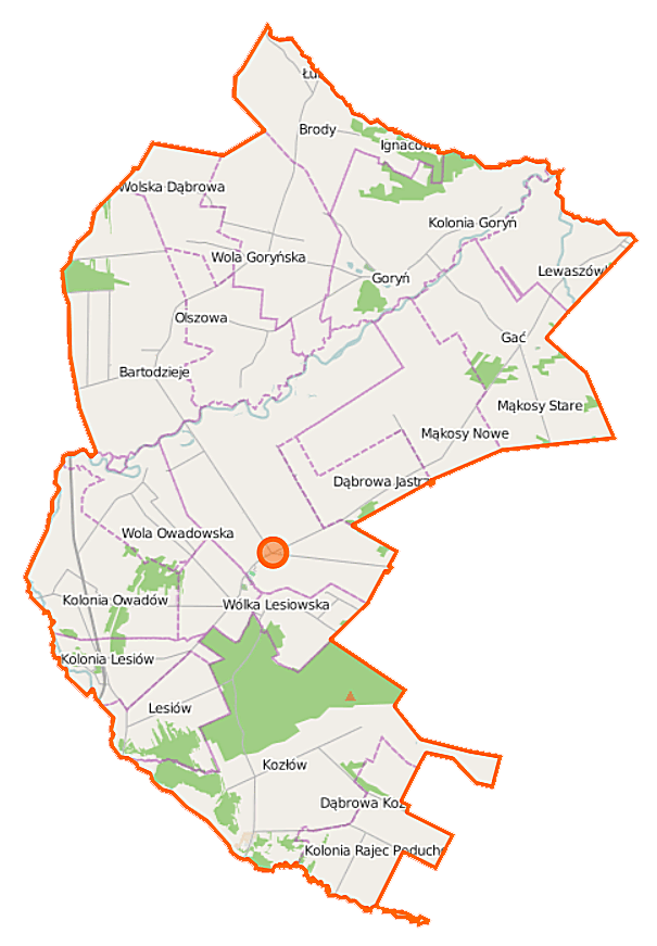 Map of Gmina Jastrzębia, Poland This map of Jastrzębia (gmina) was created from OpenStreetMap project data, collected by the community. This map may be incomplete, and may contain errors. Don't rely solely on it for navigation. Border coordinates51.583721.1683←↕→21.334451.4347